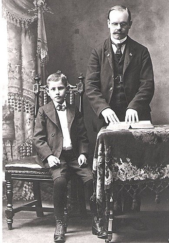 Photograph of blind evangelist Rev. Chenault, who traveled the Southern states with a young assistant proselytizing. A member of the Disciples of Christ sect, frequently held revivals at a tabernacle near Chatmoss in Henry County, Virginia, between 1898 and 1905. In the photo Rev. Chenault is accompanied by a young boy who acted as his personal aide and traveled with him. Rev. Chenault is shown with his fingers on a Braille bible. Retouched by MarmadukePercy